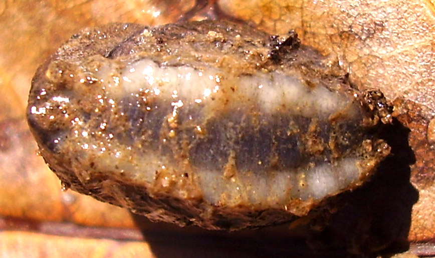 The foot of Tandonia budapestensis. Locality: Bulgaria: Stara Zagora.